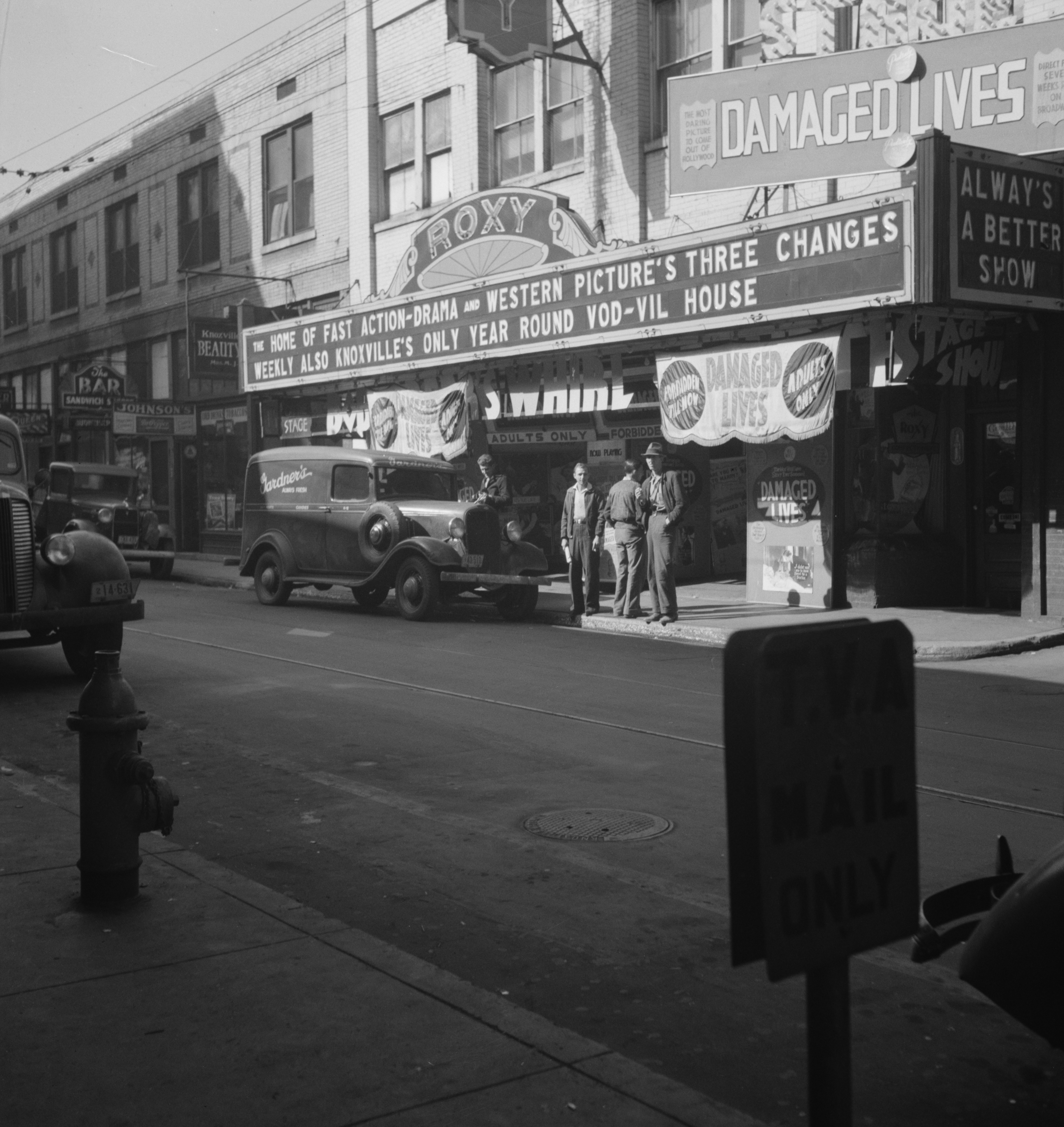 The Roxy Theater in Knoxville, Tennessee, USA, photographed circa 1941. The Roxy was located along Union Avenue, just west of Market Square. The bottom part of the original photograph, showing part of a sidewalk and street, has been cropped. A banner indicates that it is showing the Pre-Code exploitation film Damaged Lives (1933) on an "adults only" basis.